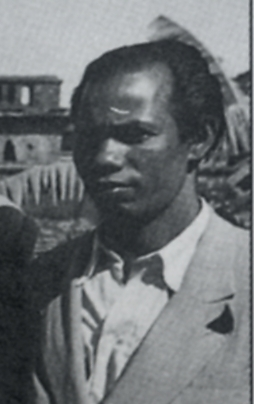 Sardar Jainuddin, Bangladeshi author.